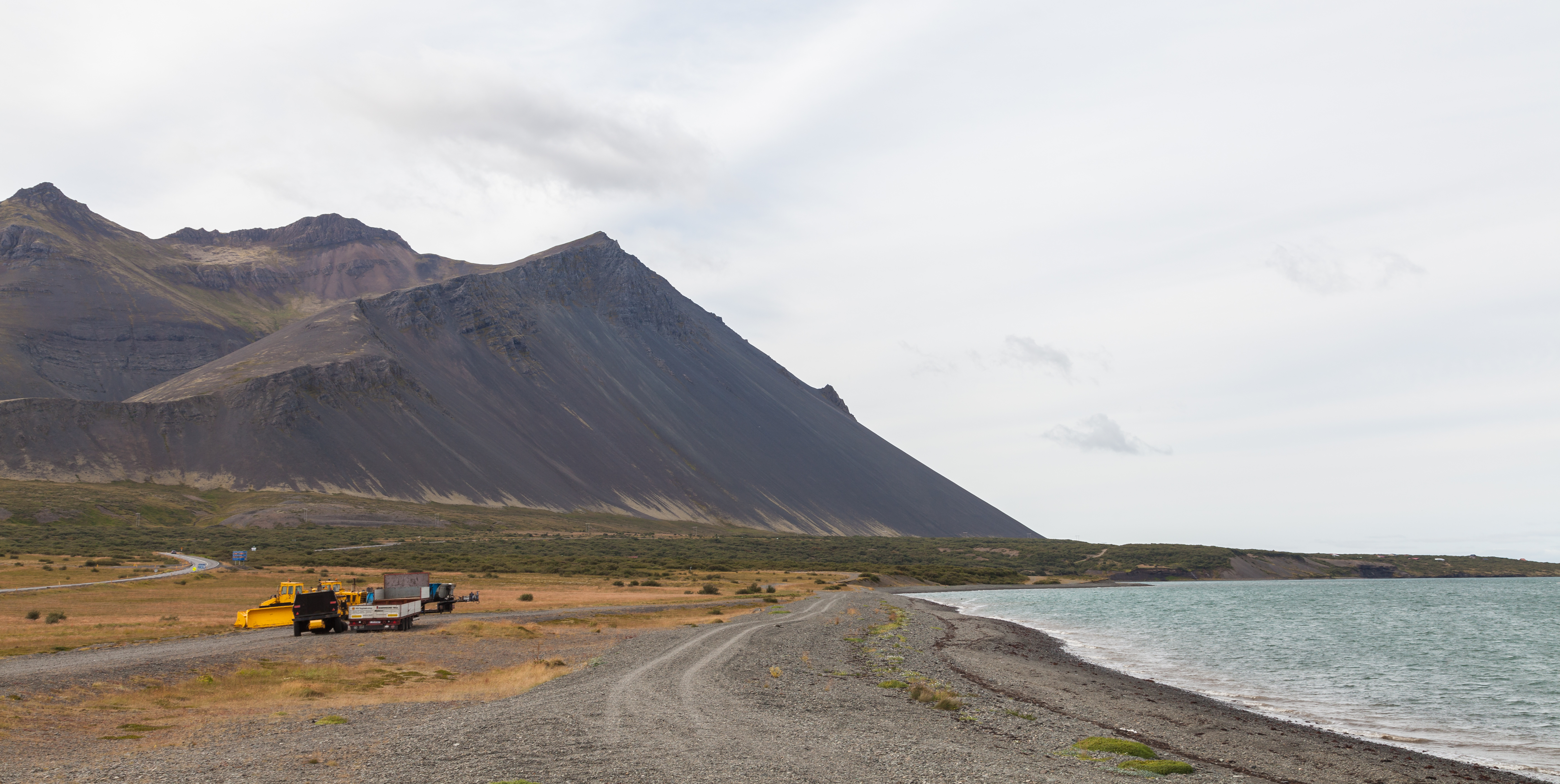 Akrafjall volcanic mountain, Akranes, Vesturland, Iceland